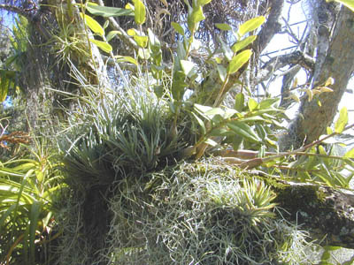 Photograph taken by Eric Guinther of epiphytes (bromeliads and orchids) on a tree branch in a garden setting in Hawaii. Released under the GNU Free Documentation License